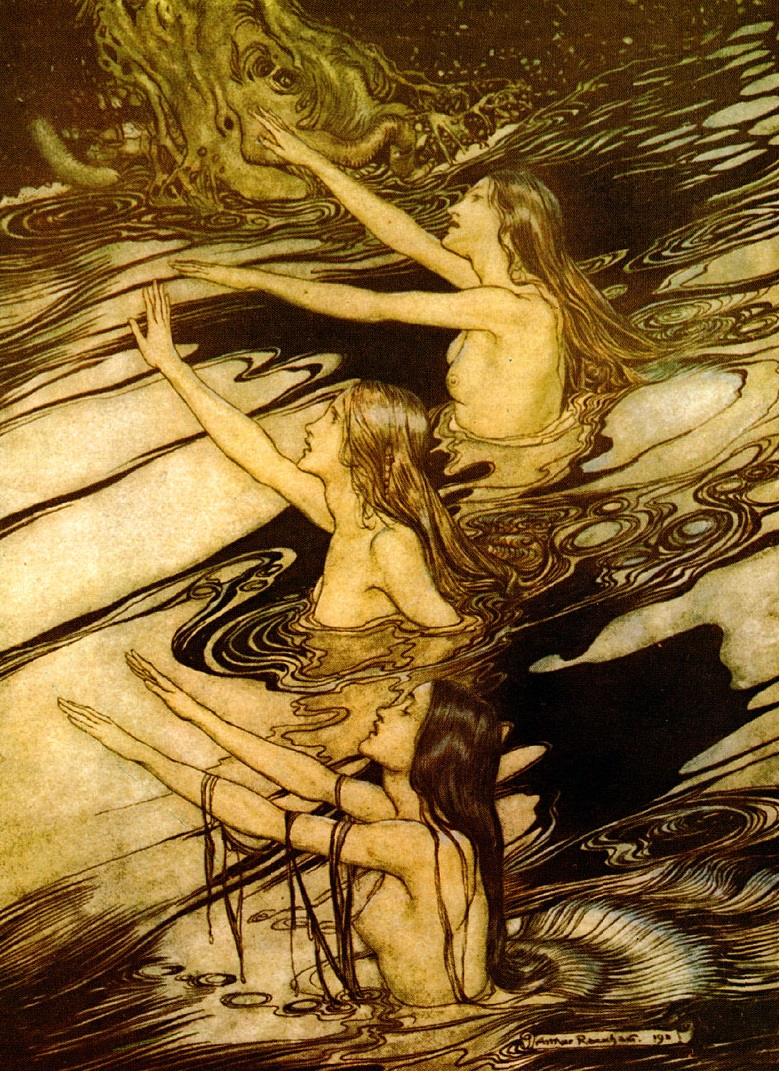 Die Rheintöchter (The Rhinemaidens), characters in Richard Wagner's "Der Ring des Nibelungen", by Arthur Rackam.